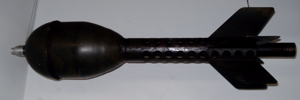 Stielgranate 41 ammunition for the PAK 36 37 mm gun. It was introduced in late 1941 in order to give the PAK 36 guns some ability to deal with heavily armored tanks appearing on the battlefield at that time. The shell, many times larger than the 37 mm caliber and hence inserted into the front of the barrel to be fired, contained a shaped charge and had a range of about 300 m. Displayed in Finnish Tank Museum (Panssarimuseo) in Parola. Photo taken on July 14, 2006. Source: Photo by me, User:Balcer.